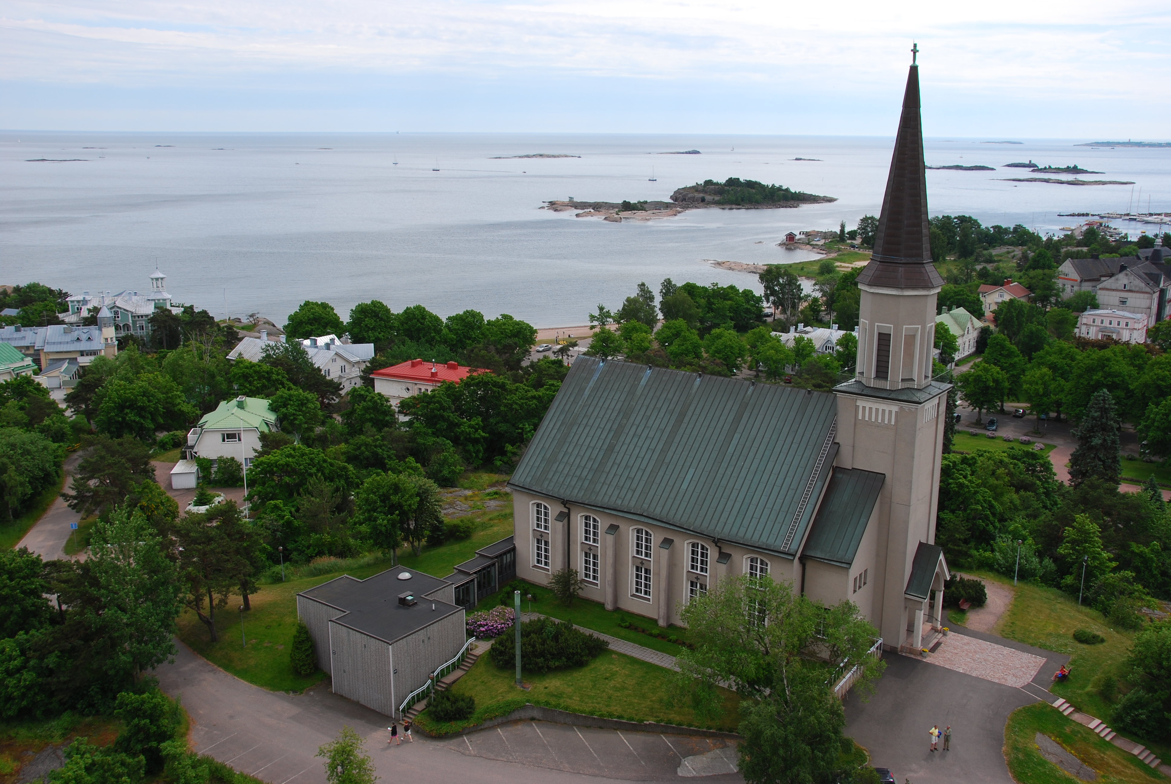 Hanko Church, Finland from water tower